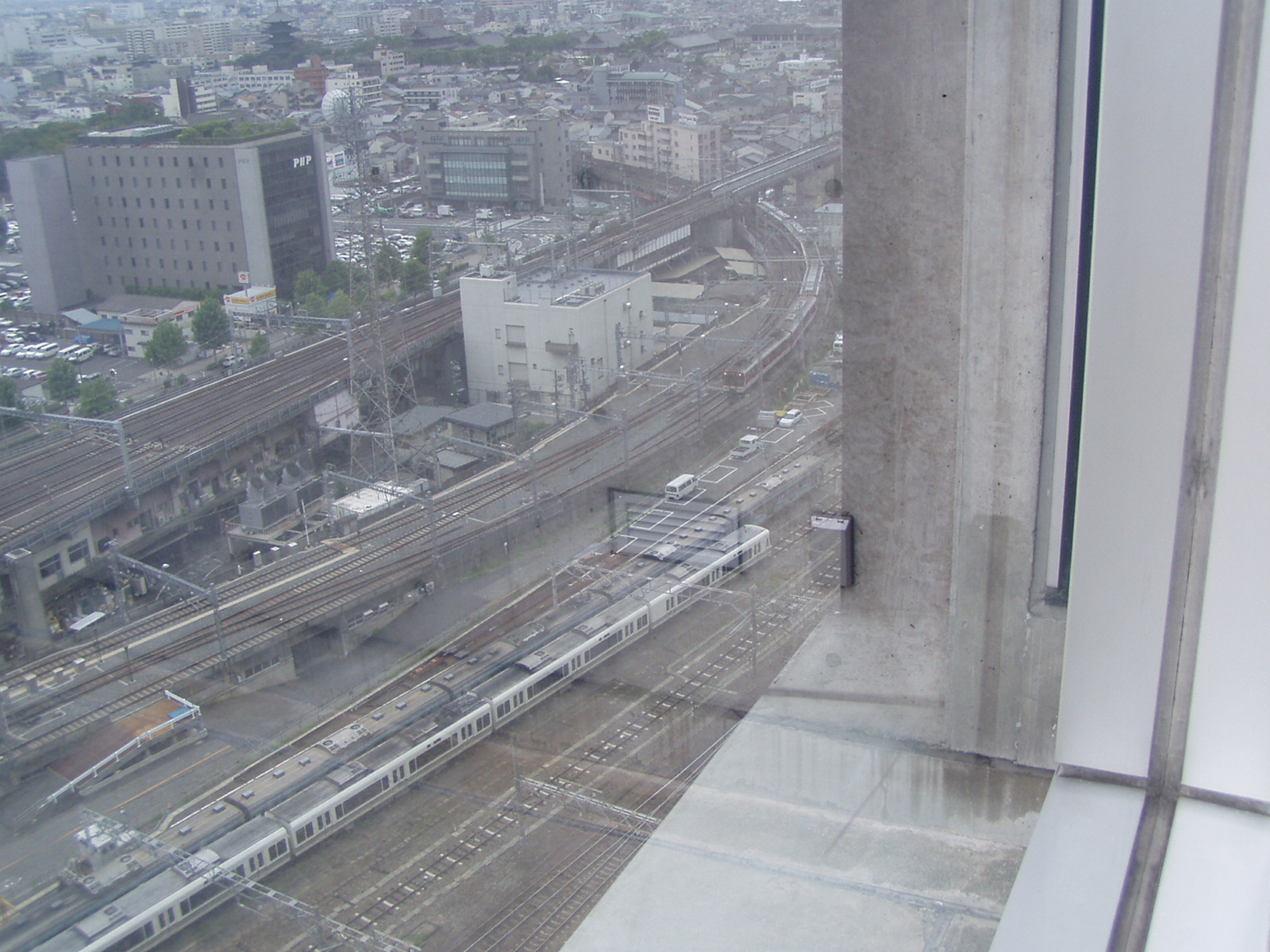 Kyoto Station. Western station throat seen from the rooftop garden.